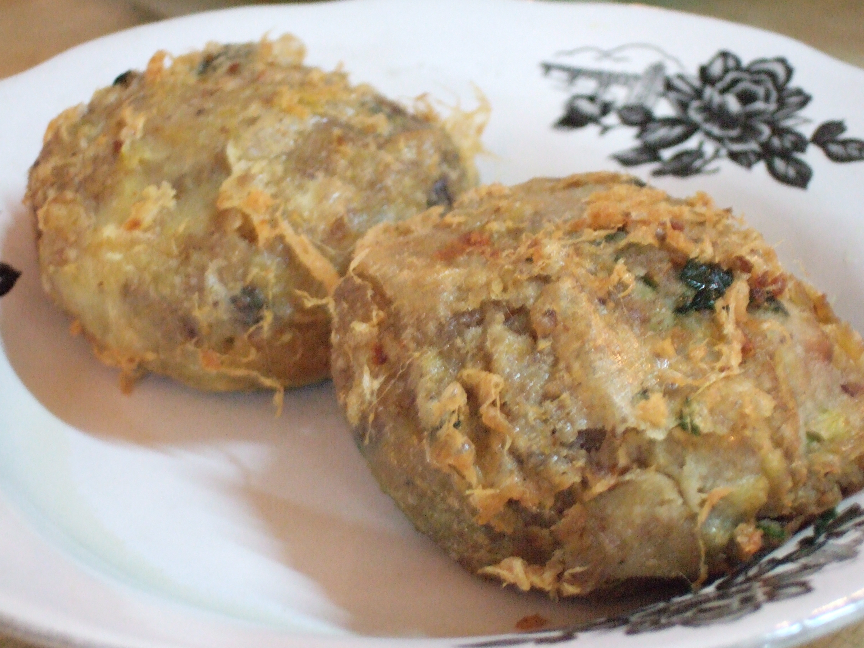 Croquette of spicy ground meat and boiled potatoes